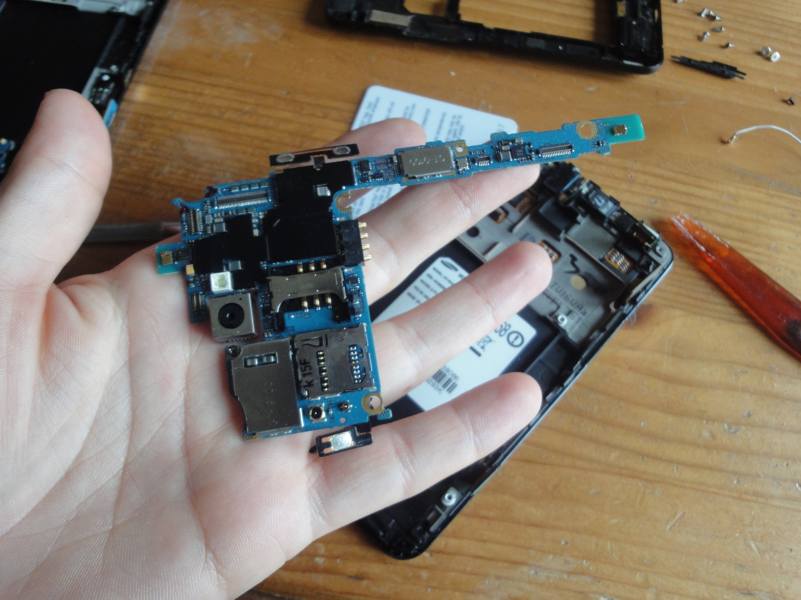 the internal workings of the Galaxy S2. Its mother board